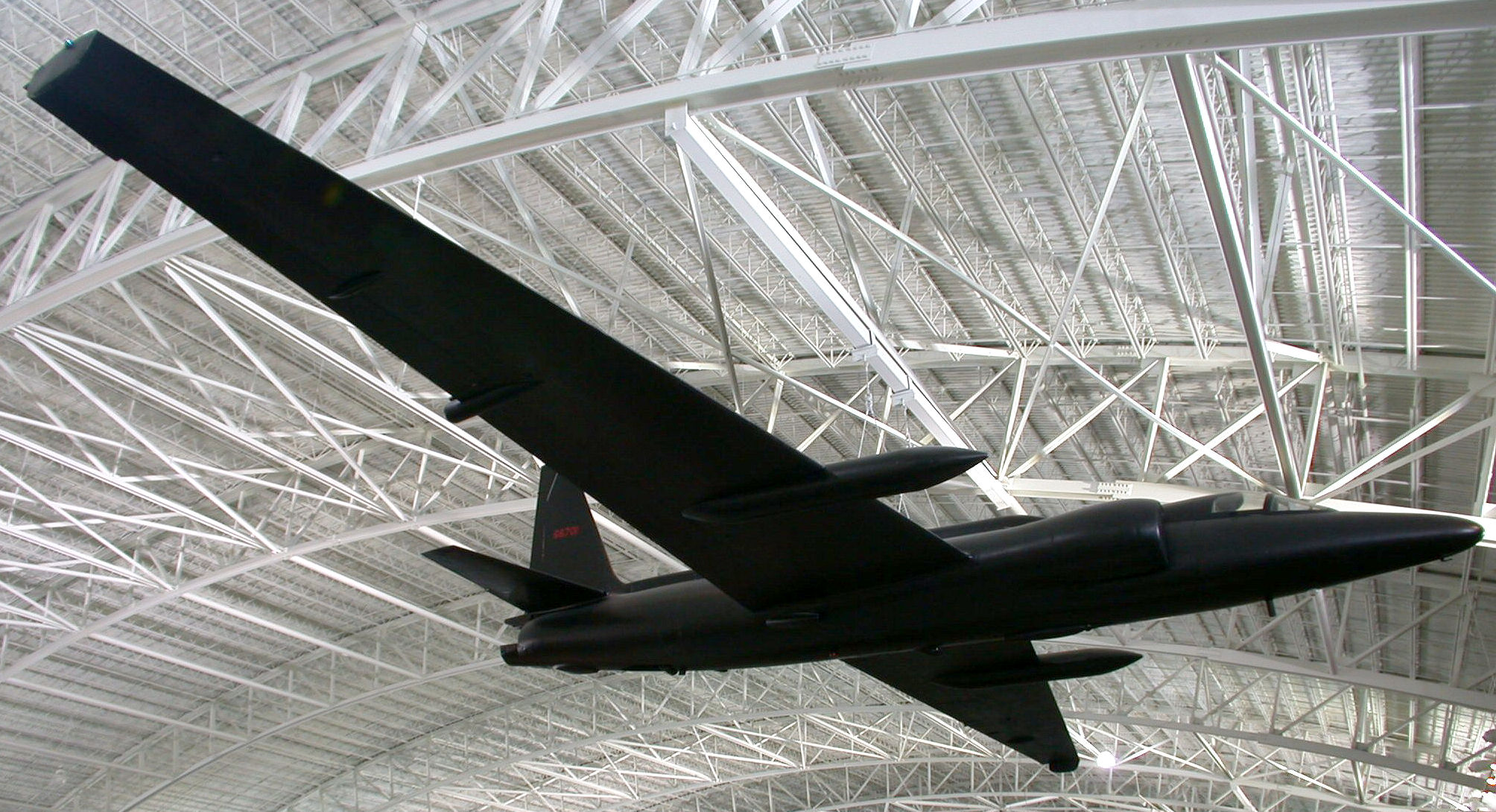 Lockheed U-2C at Strategic Air & Space Museum, Nebraska